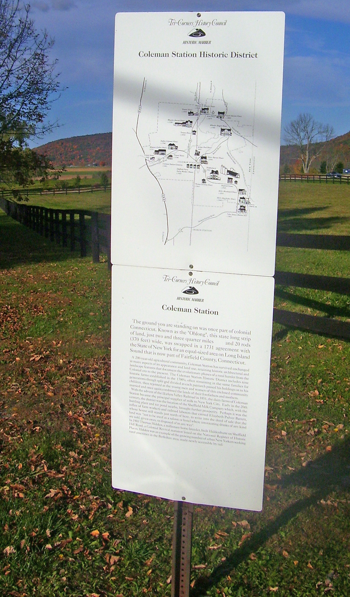 Sign at southeastern boundary of Coleman Station Historic District, in Town of North East, NY, USA, near Connecticut state line.